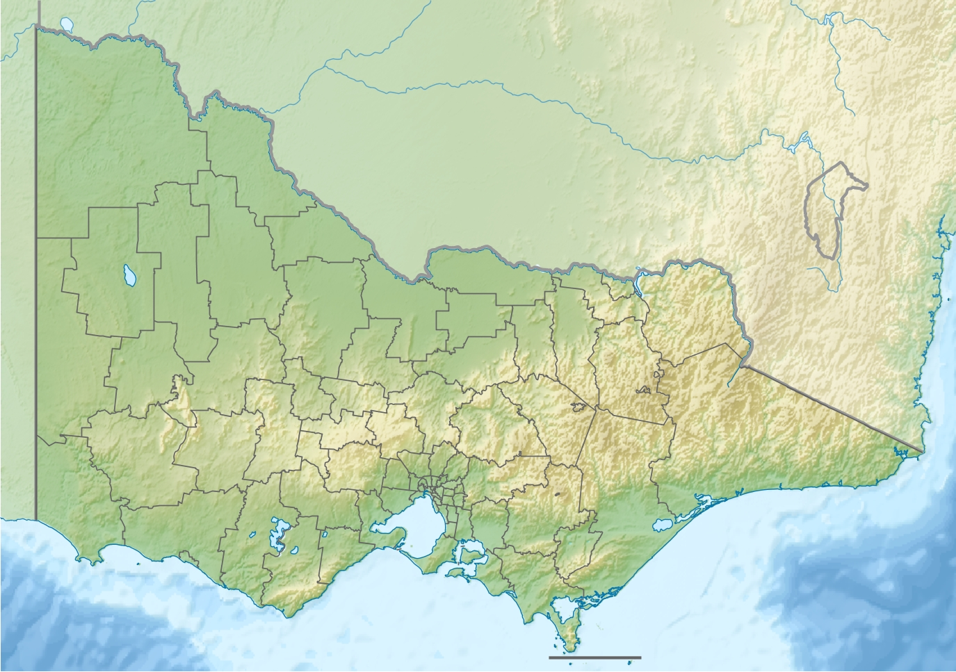 Location map of Victoria, Australia Equirectangular projection, N/S stretching 124 %. Geographic limits of the map: * N: 33.8° S * S: 39.3° S * W: 140.6° E * E: 150.3° E